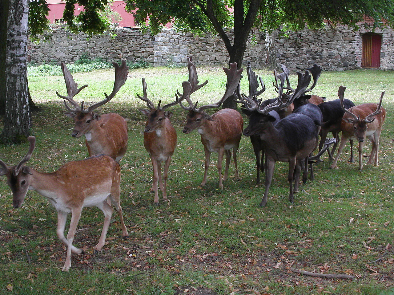 Fallow-deer in the park in Blatná (CZE)